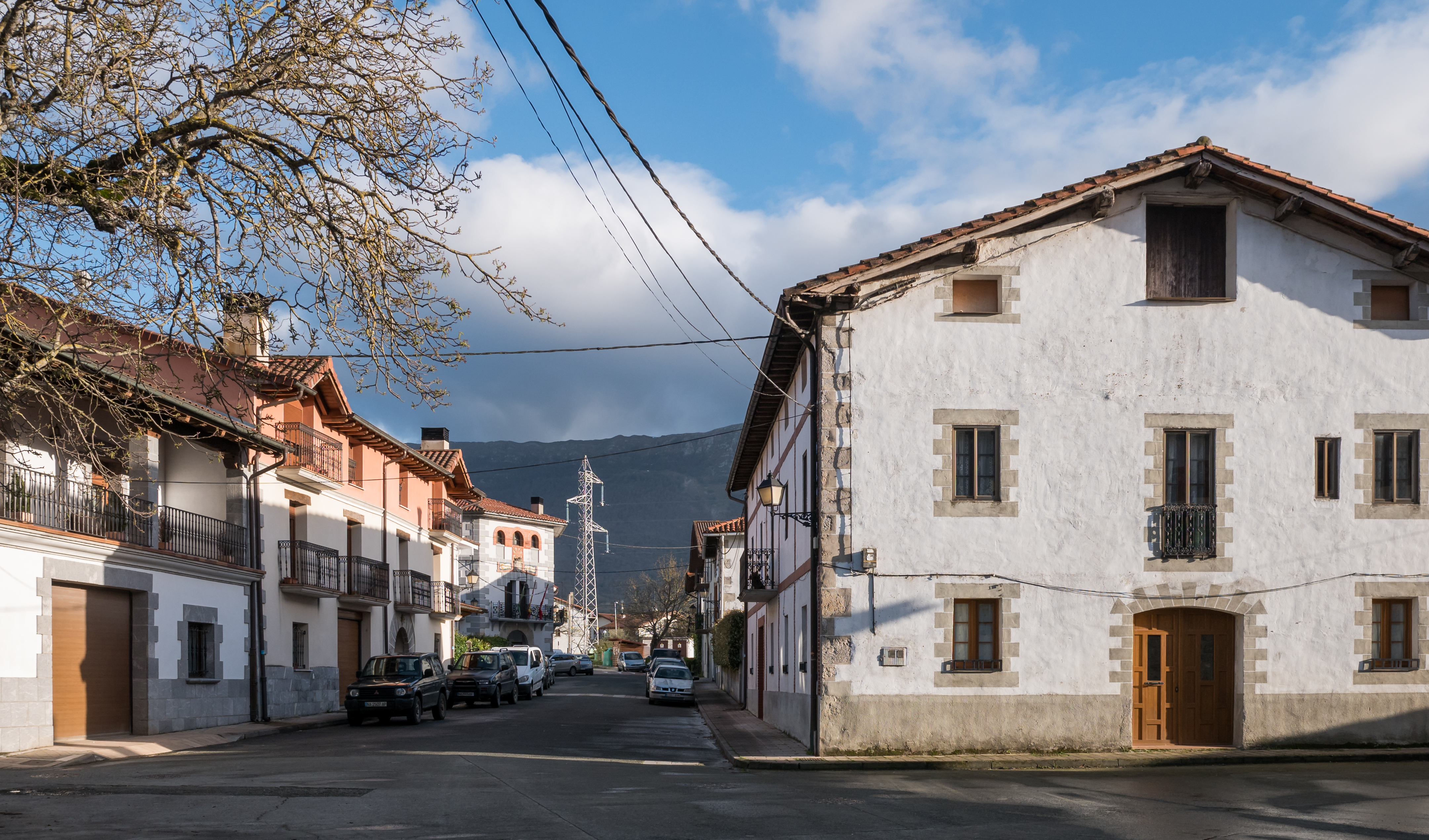 Village houses in Irañeta, Navarre, Spain